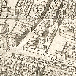 Arnold Mercator Kölner Stadtansicht von 1570; Detail: Hahnenstraße